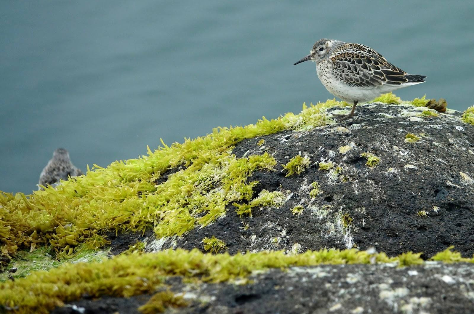 rock sandpiper on St. Paul Island, Alaska